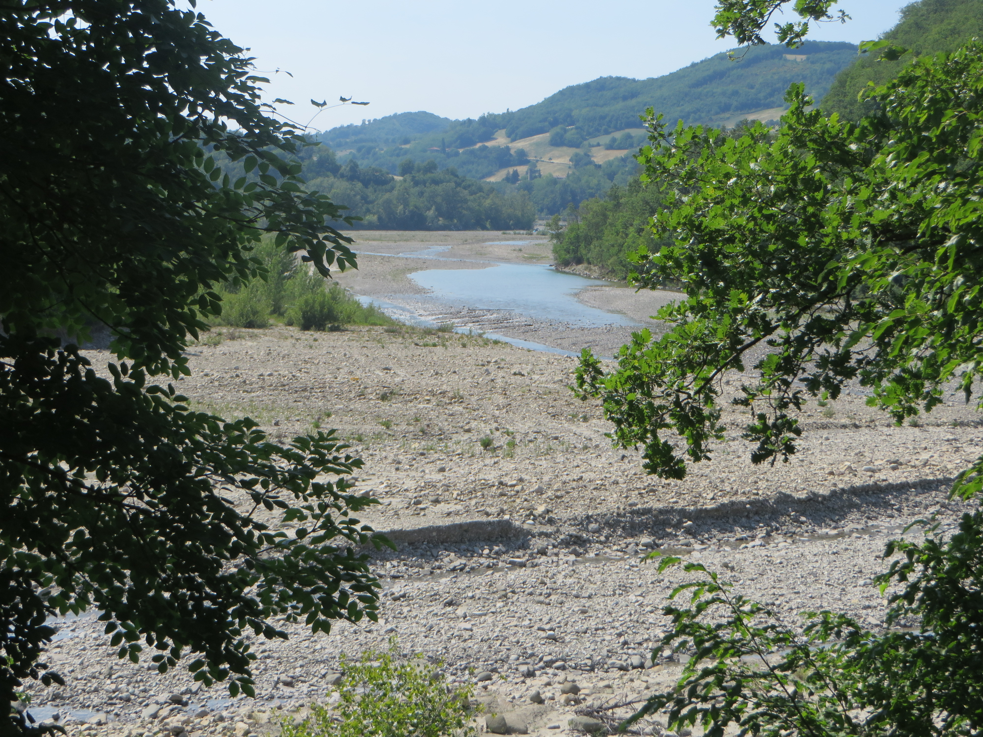 Pessola Creek mouth